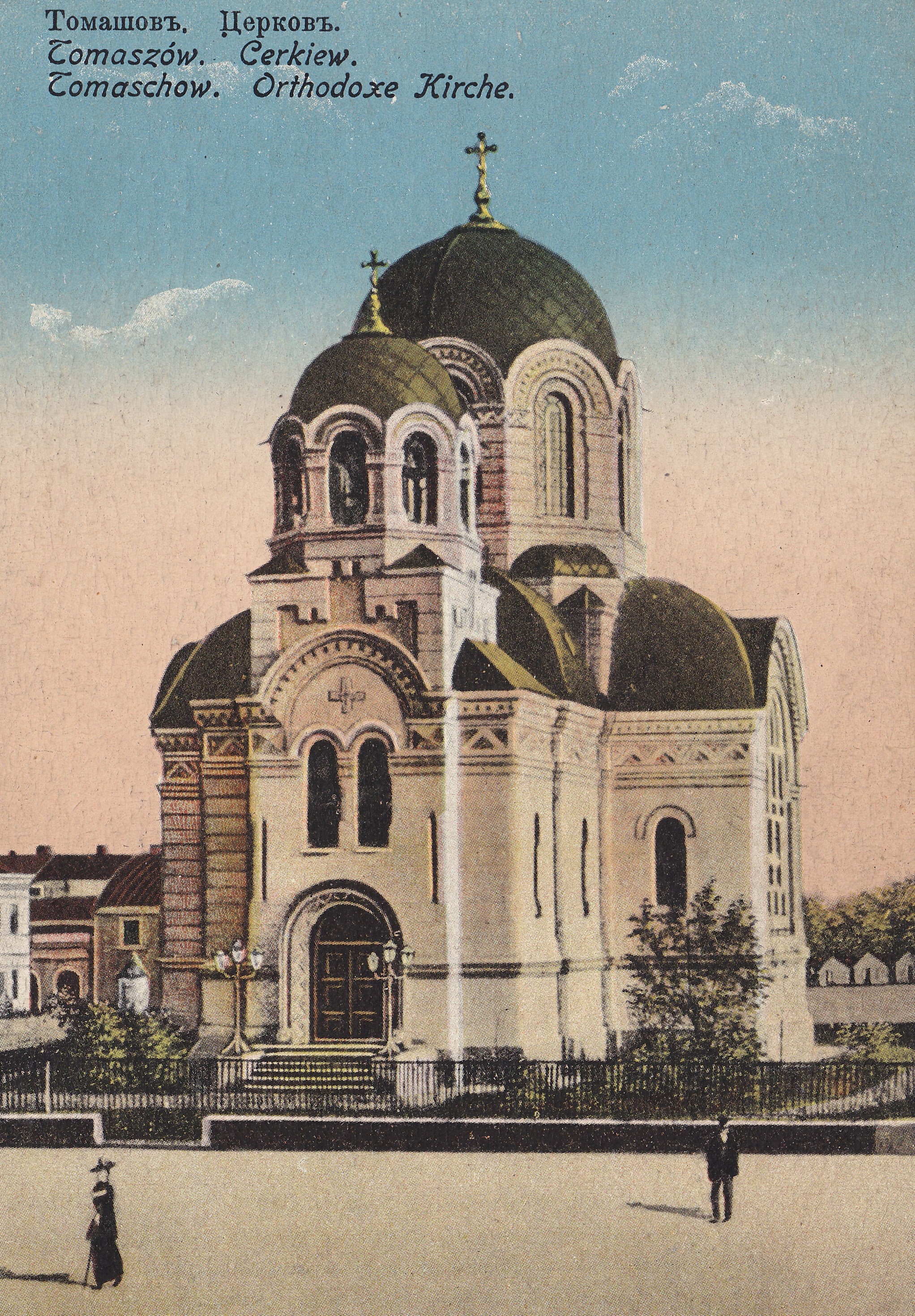 St. Nicholas Orthodox Church in Tomaszów Mazowiecki (existed 1901-1925)